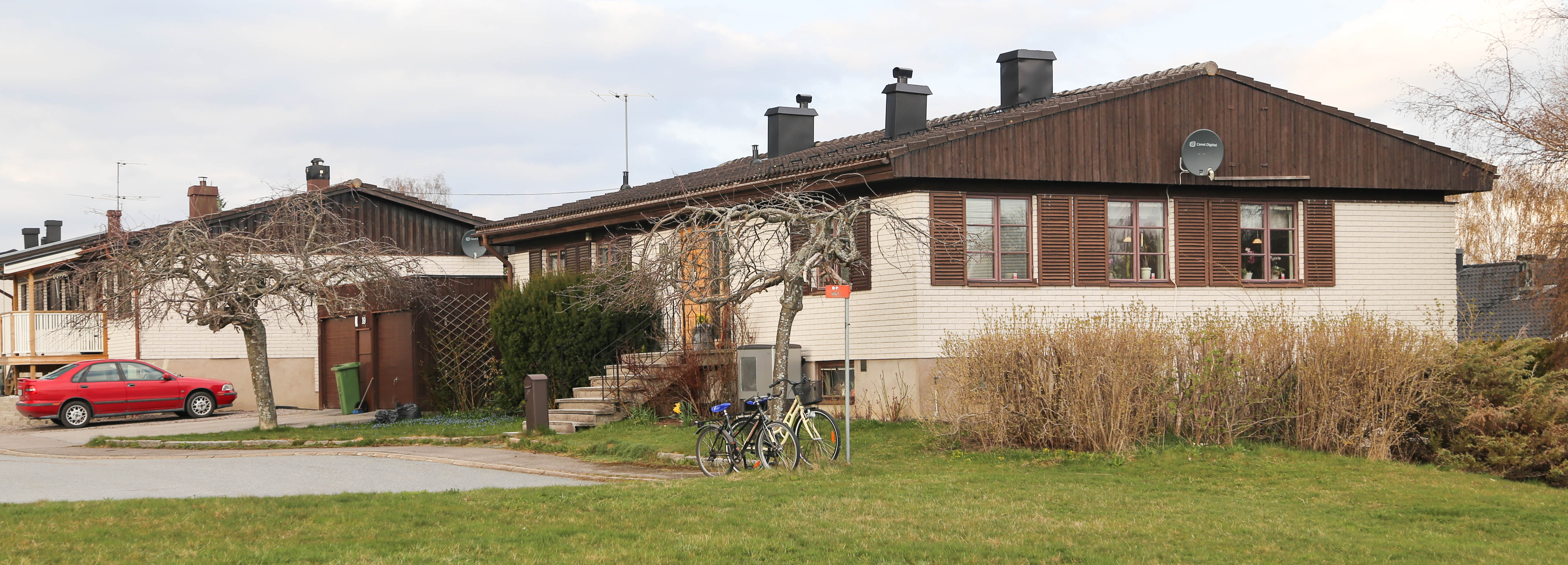 Houses made of calcium-silicate bricks in Sweden in the beginning of the 70´s